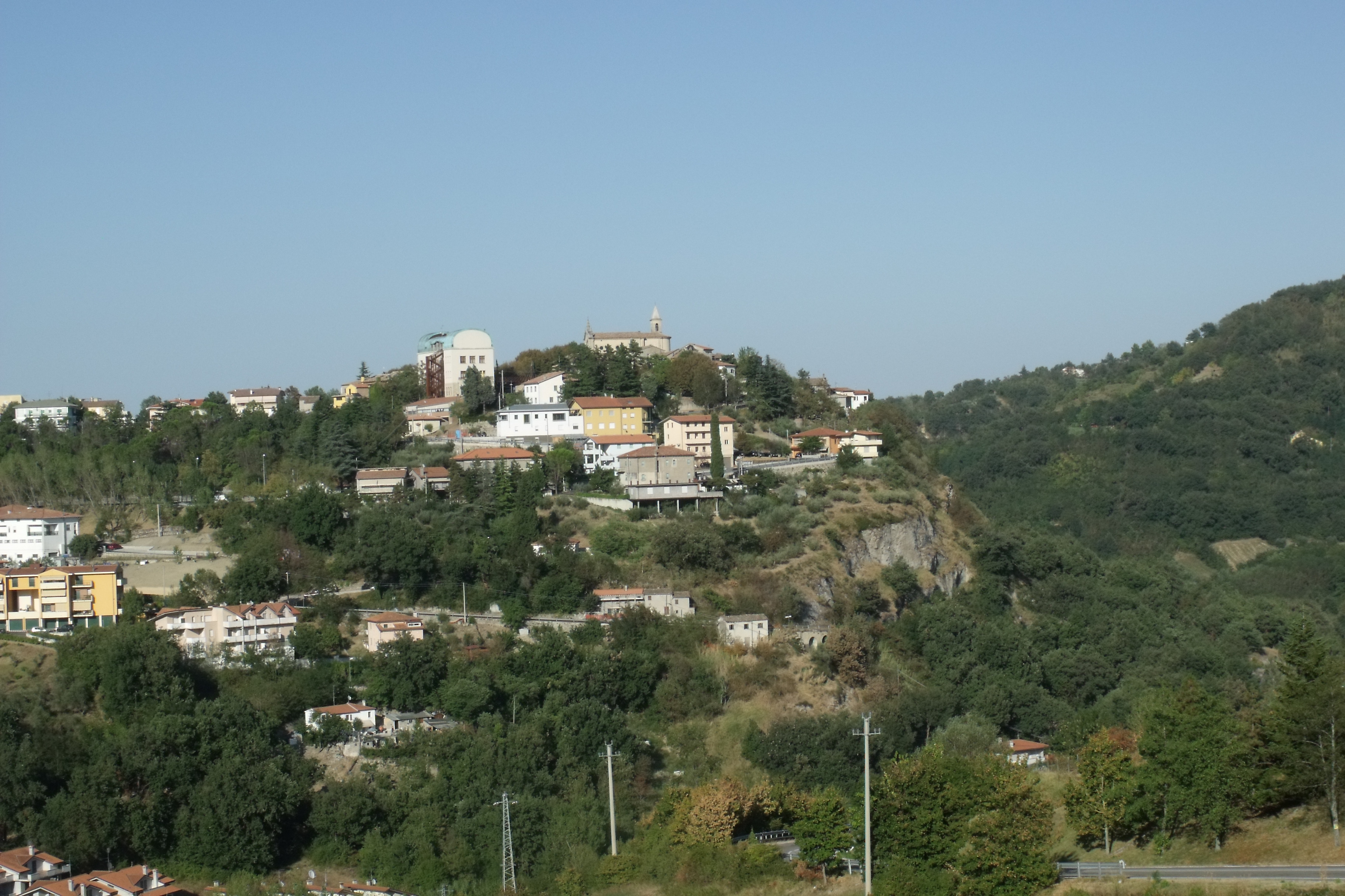 Panorama of Faetano, San Marino